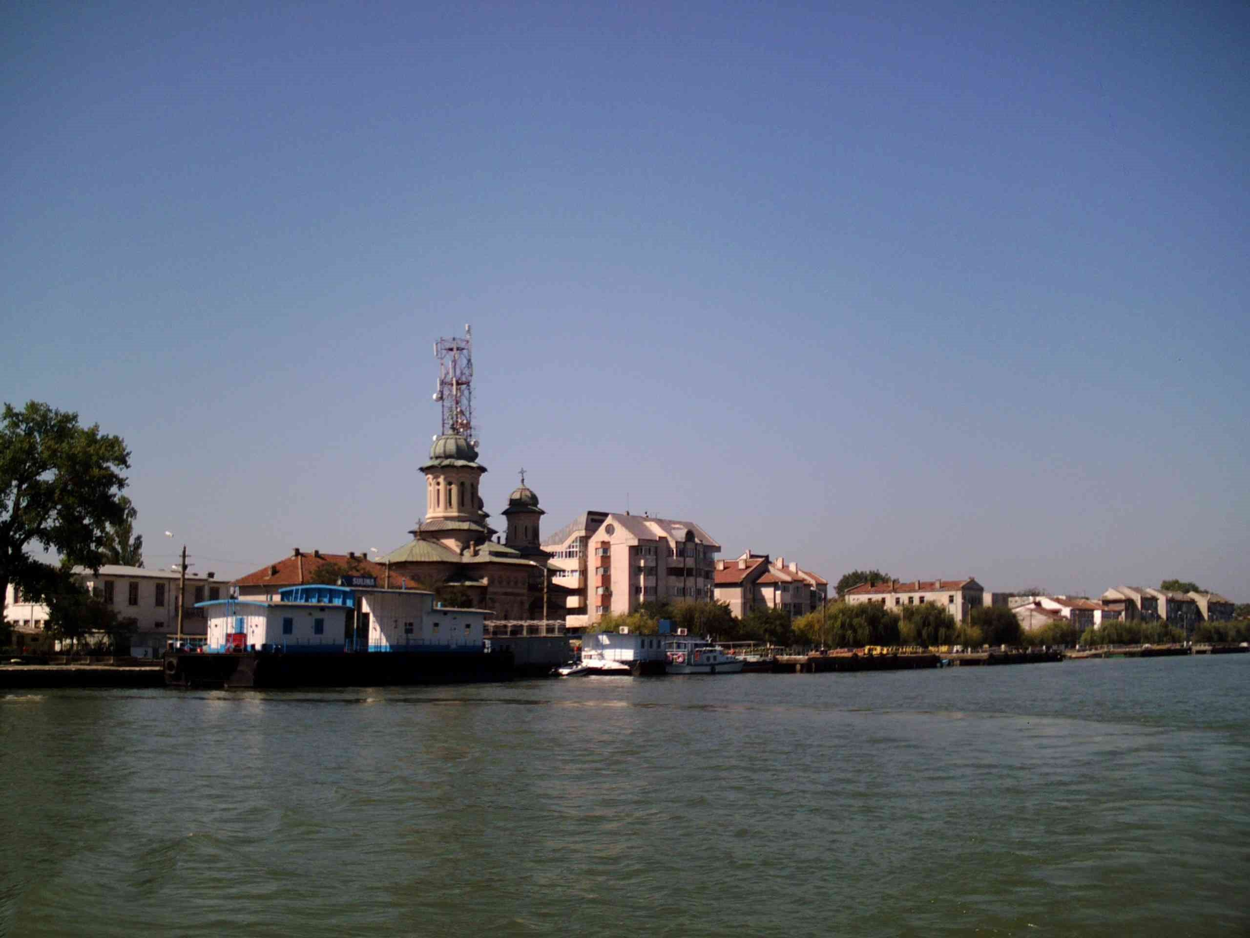 sulina oras